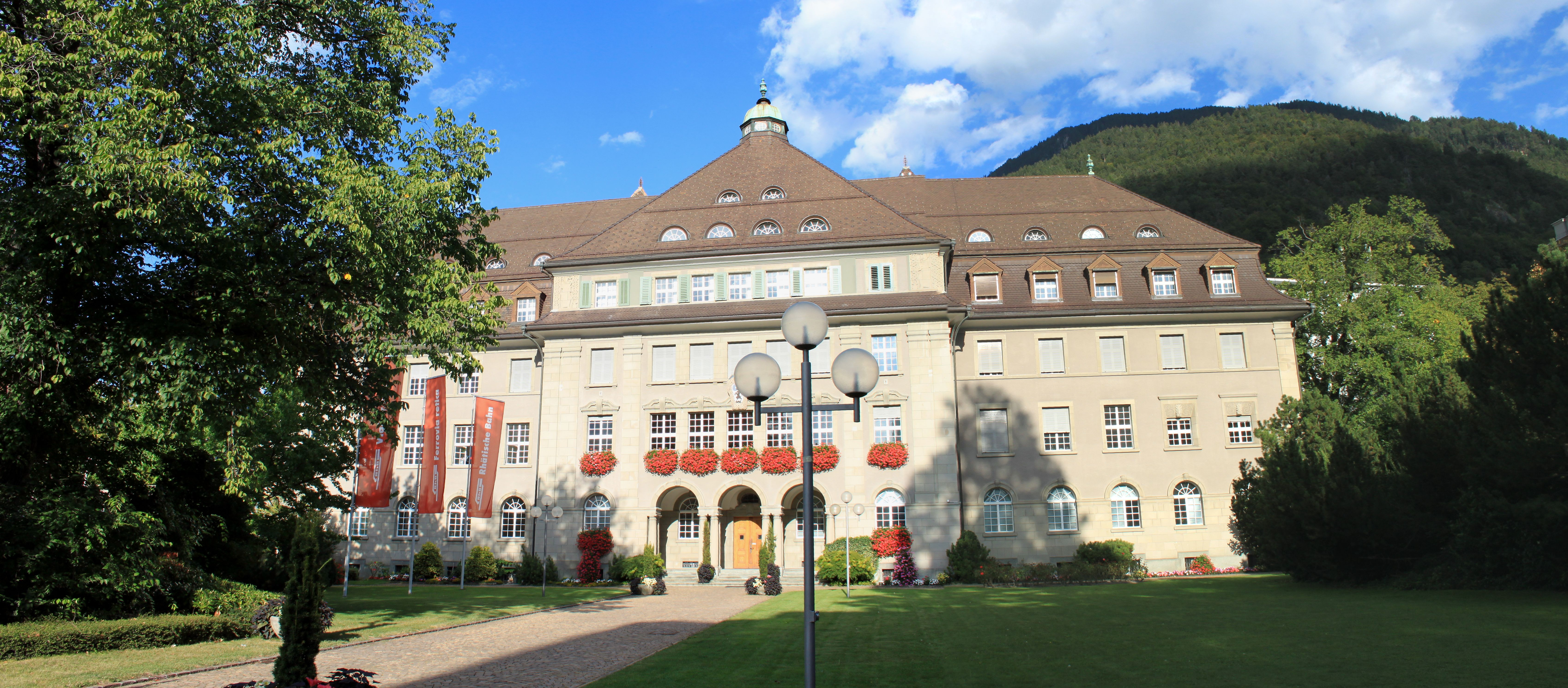 Rhaetian Railway headquarters in Chur, Switzerland.